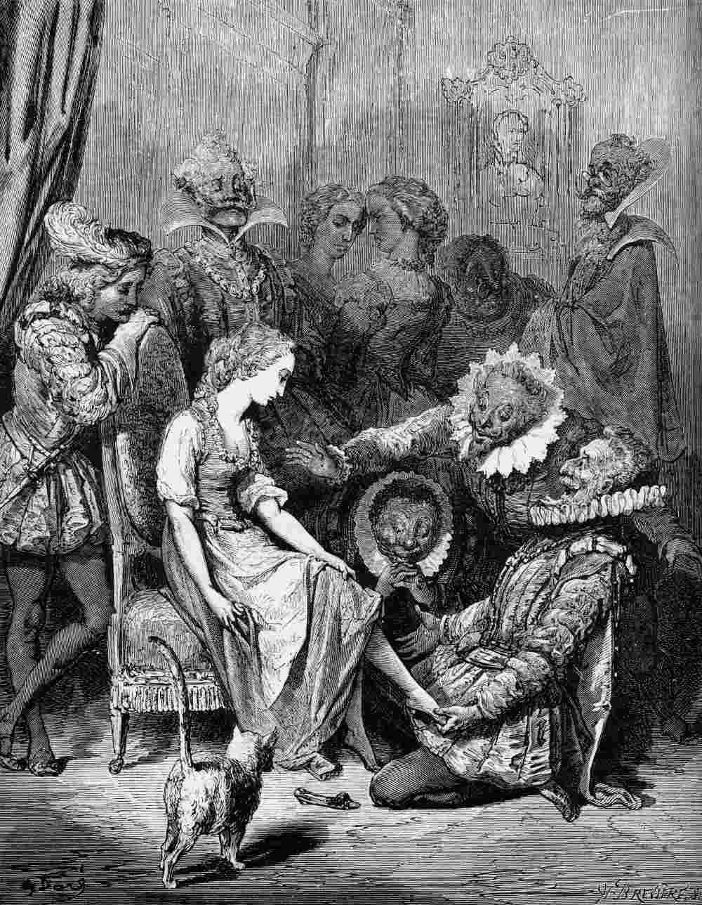 Untitled illustration from "Cinderella" from the book Les Contes de Perrault, an edition of Charles Perrault's fairy tales illustrated by Gustave Doré, originally published in 1862 (source). Link to the page with the illustration in an online eBook edition of the original book.